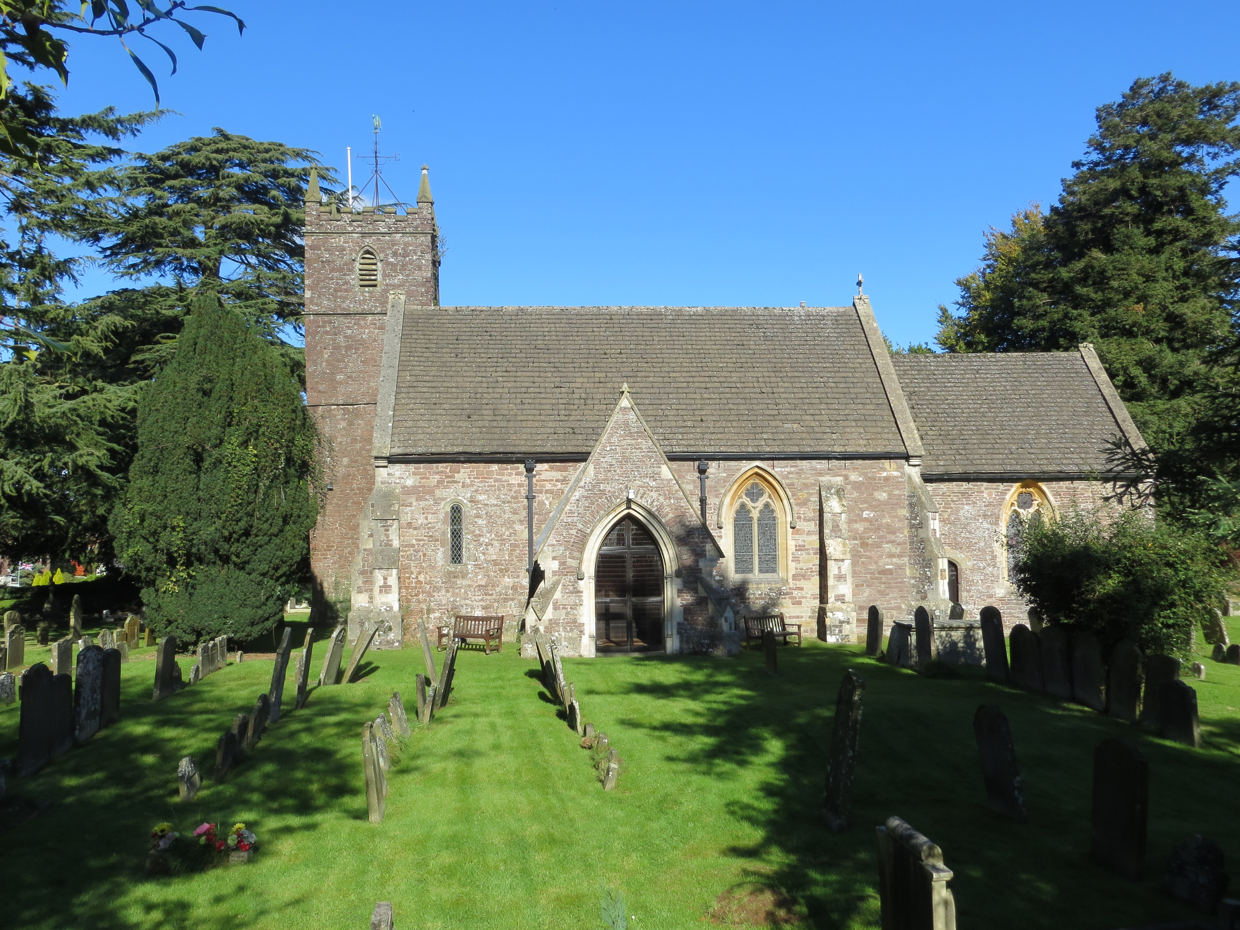 St Andrew's parish church, Alvington, Gloucestershire, seen from the south